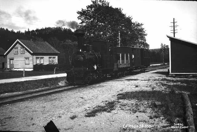 Lillesand and the Lillesand–Flaksvand Line with a steam locomotive.